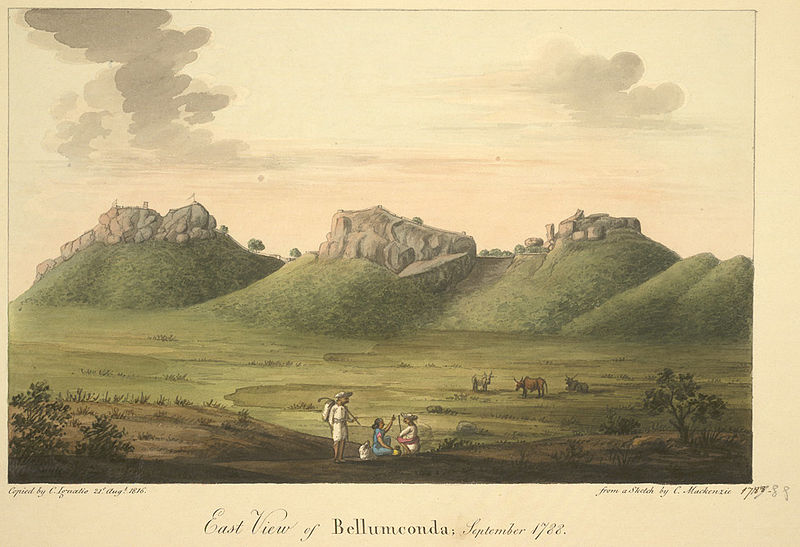 E.view of Bellamkonda Fort. Copy of a sketch made in 1788 by Mackenzie